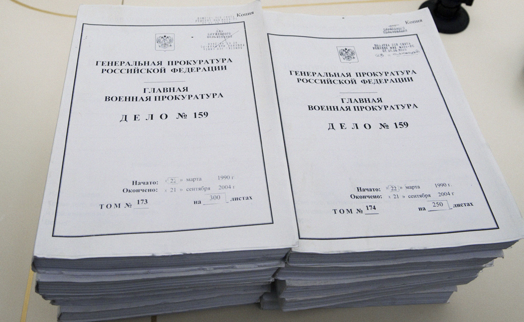 “Handover of Katyn forest massacre materials to Poland”. Copies of declassified criminal case materials concerning the KGB massacre of Polish servicemen in Katyn in the spring of 1940, handed over by the Russian Prosecutor-General's Office international law cooperation department to the Polish side.